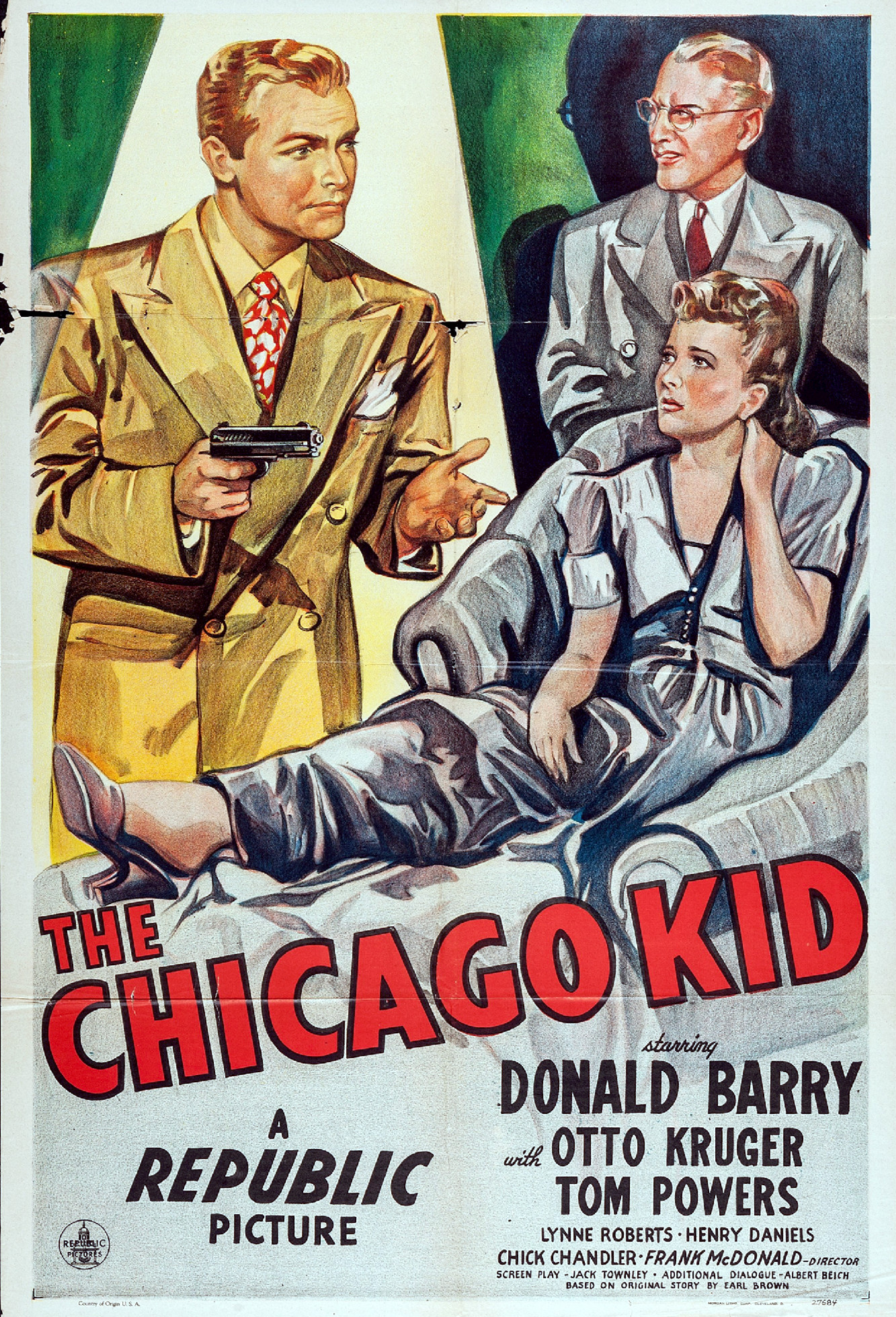 Poster for the 1945 film The Chicago Kid. There are no copyright marks. At bottom left is Country of origin USA. At bottom right is Morgan Litho Corp., Cleveland, O. 27684.